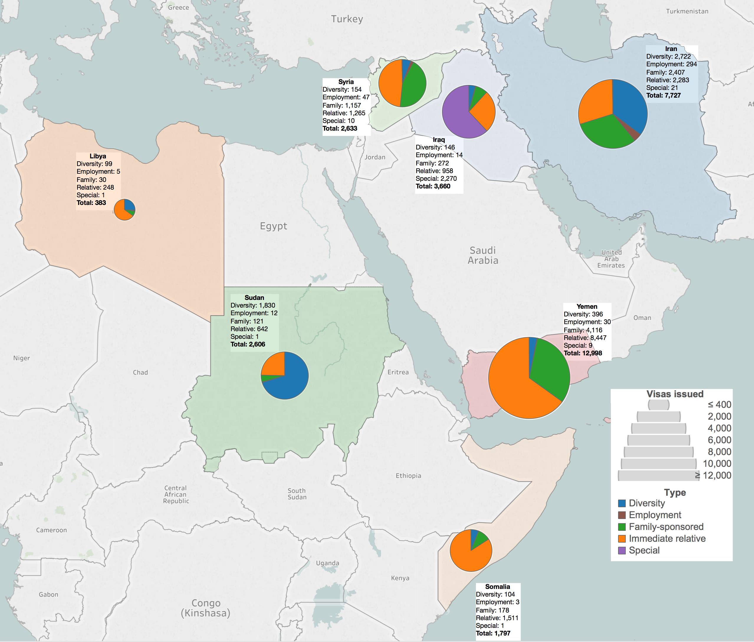 Map of the 7 countries in the Executive Order "Protecting the Nation from Foreign Terrorist Entry into the United States" of 2017, Iraq, Iran, Libya, Somalia, Sudan, Syria and Yemen. Pie charts show number of visas issued by type for 2016. Size of pie shows total for country. Source: Report of the Visa Office 2016. Bureau of Consular Affairs, U.S. Department of State.